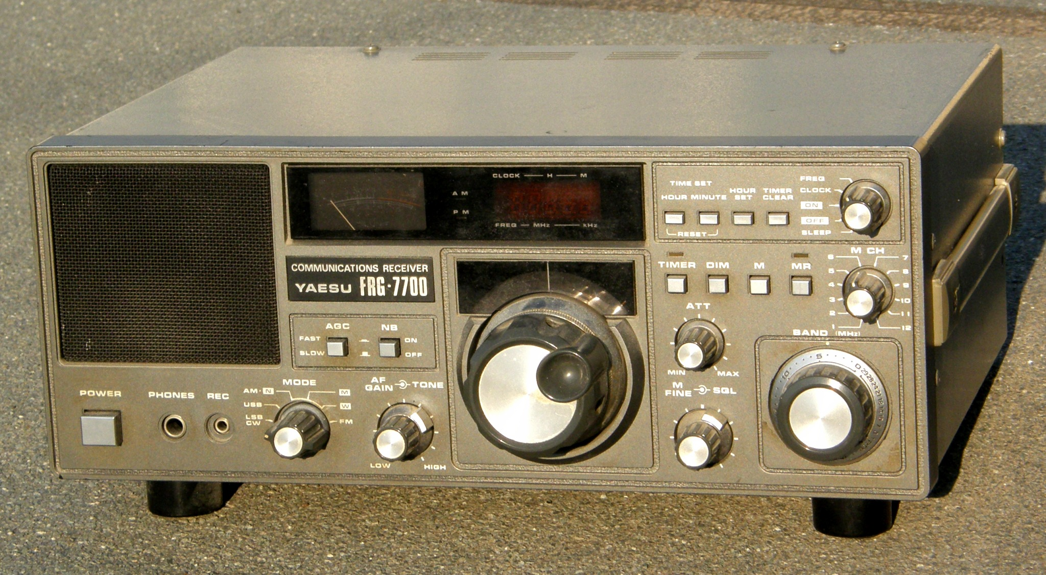 Yaesu FRG-7700 budget communications receiver (0.15-30 MHz) for general shortwave listening (circa 1981).